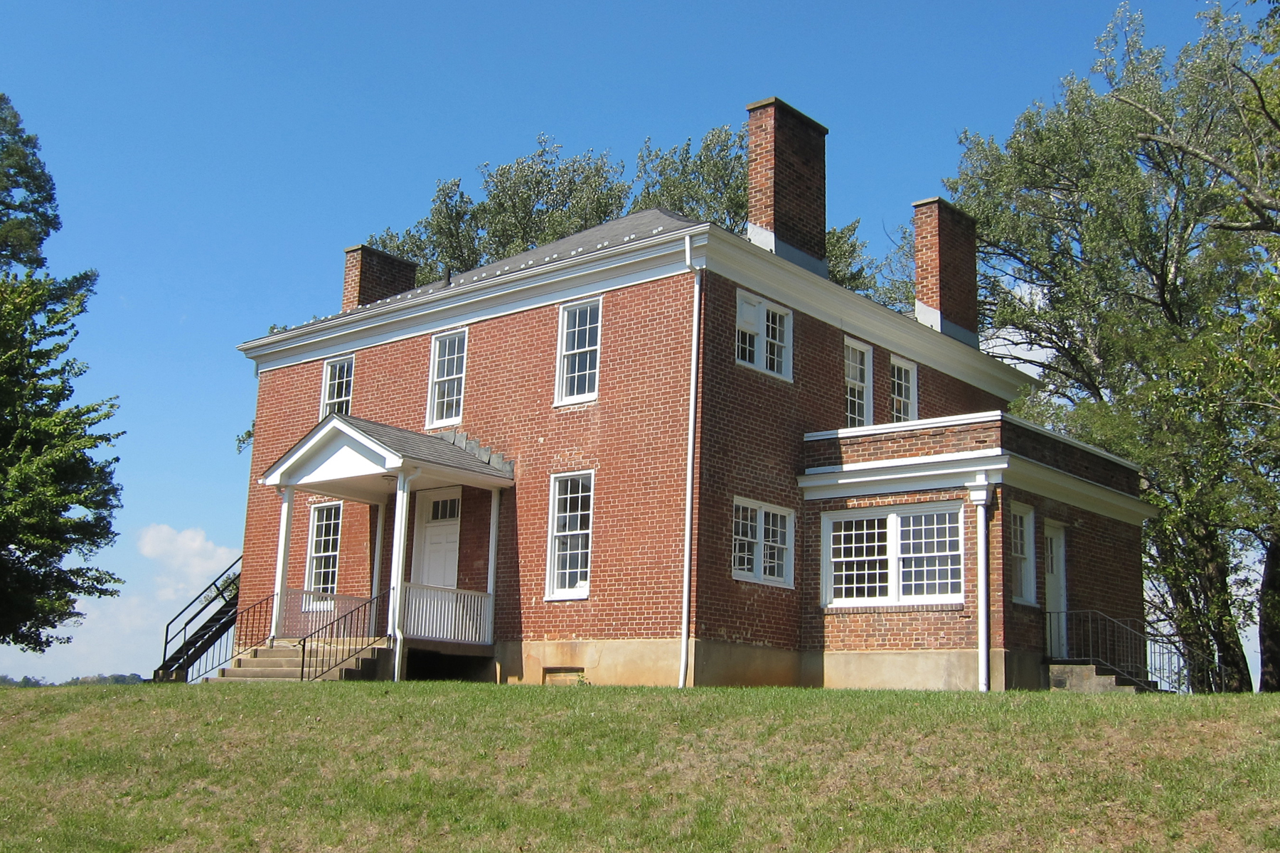 Arnheim